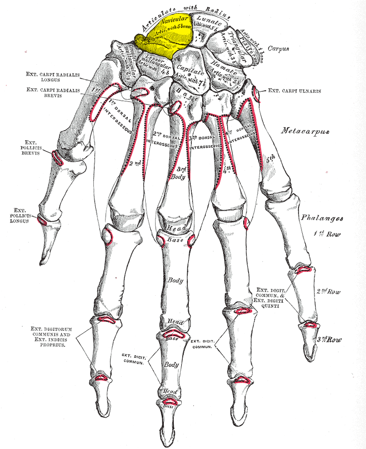 Bones of the left hand. Dorsal surface.